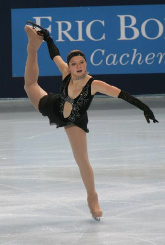 Gwendoline Didier performs a spiral at the 2008 Trophée Eric Bompard. They won the bronze medal.